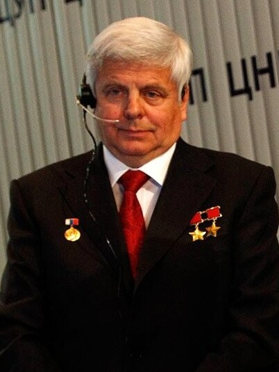 Visit to the Mission Control Centre. During a conversation with the International Space Station crew. With flight director Vladimir Solovyov.